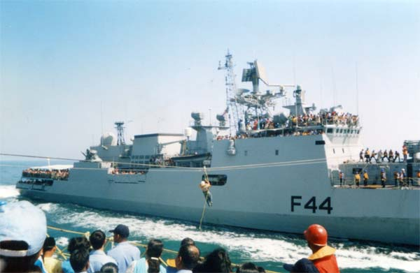 The INS Tabar a Stealth Ship of the Indian Navy off the coast of Mumbai.